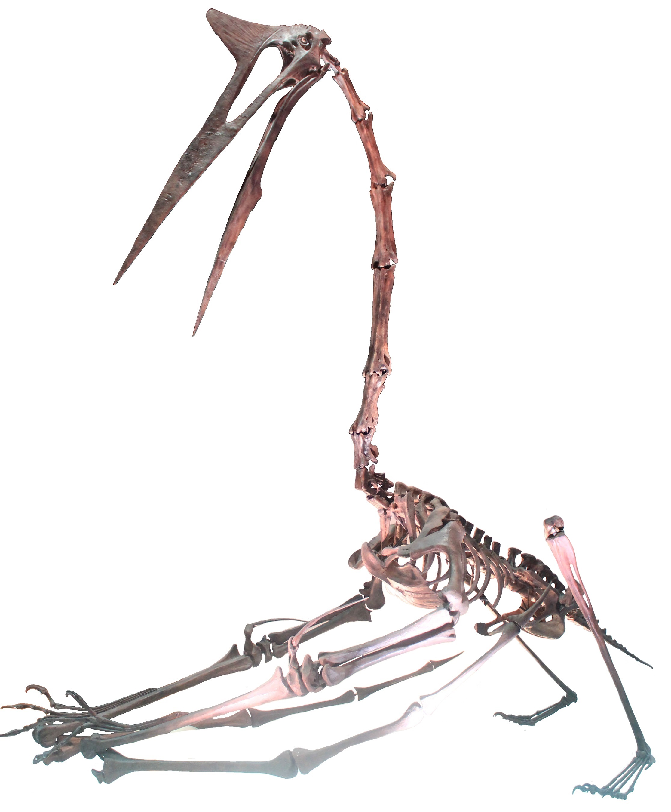 Bones and remains of prehistoric animals One of the largest flying animals ever, with a 40ft wingspan.